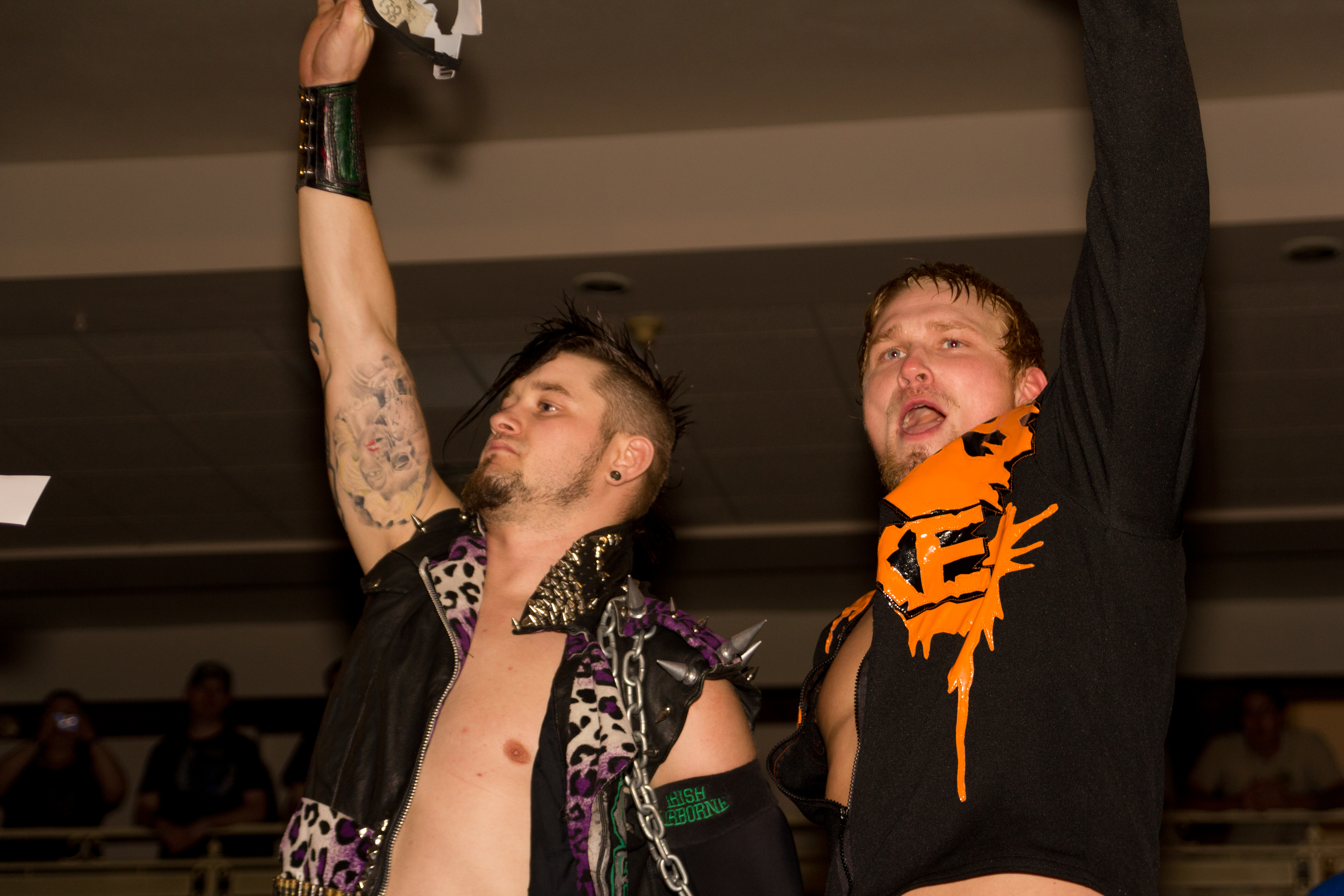 Professional wrestling tag team Irish Airborne making their ring entrance at an Alpha1 show